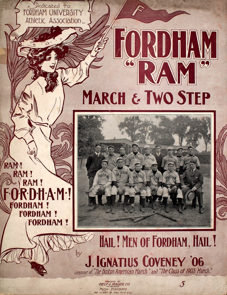 Fordham "Ram" March and Two Step